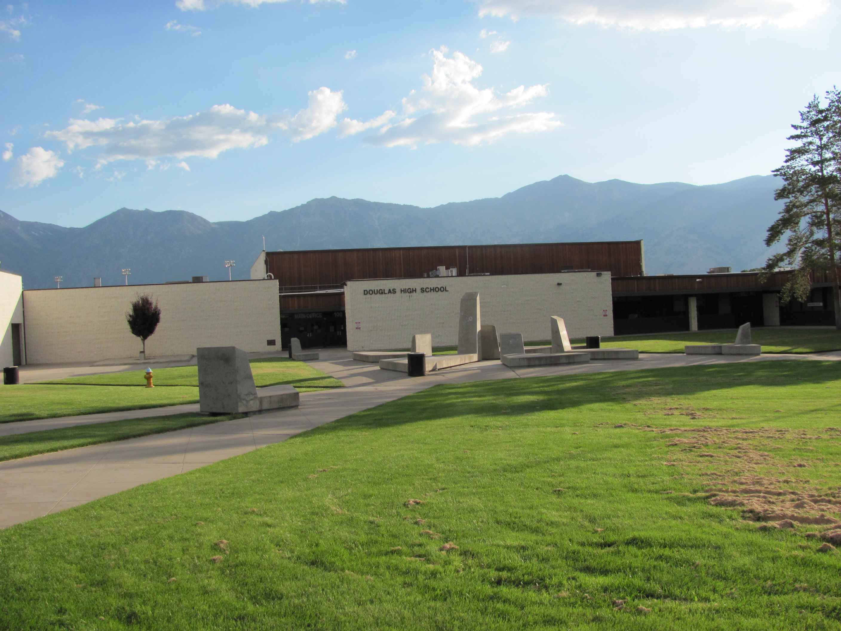 Front view of Douglas High School in Minden, Nevada